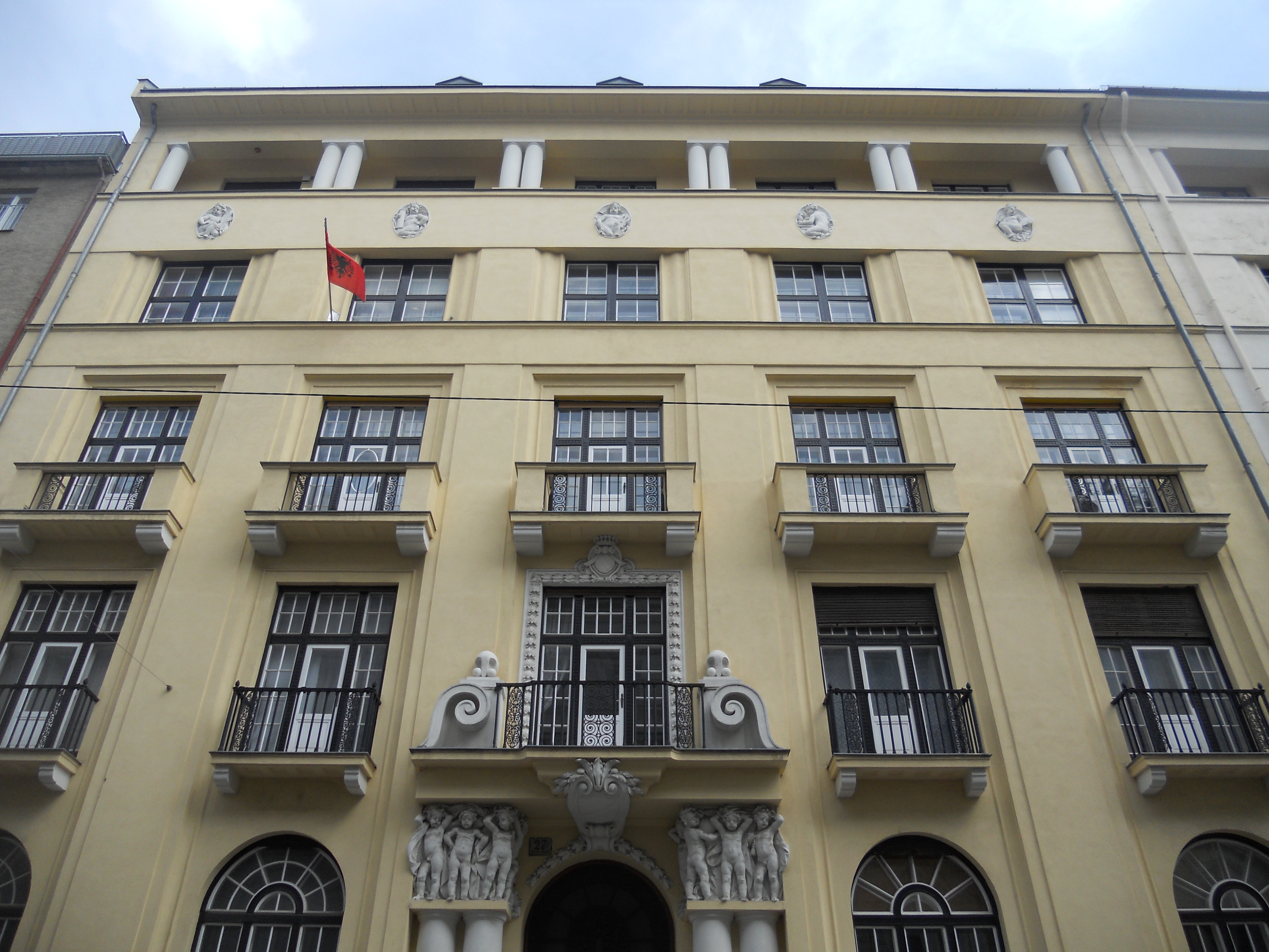 House Reisnerstraße 27 in vienna, permanent mission of Albania to the international organizations